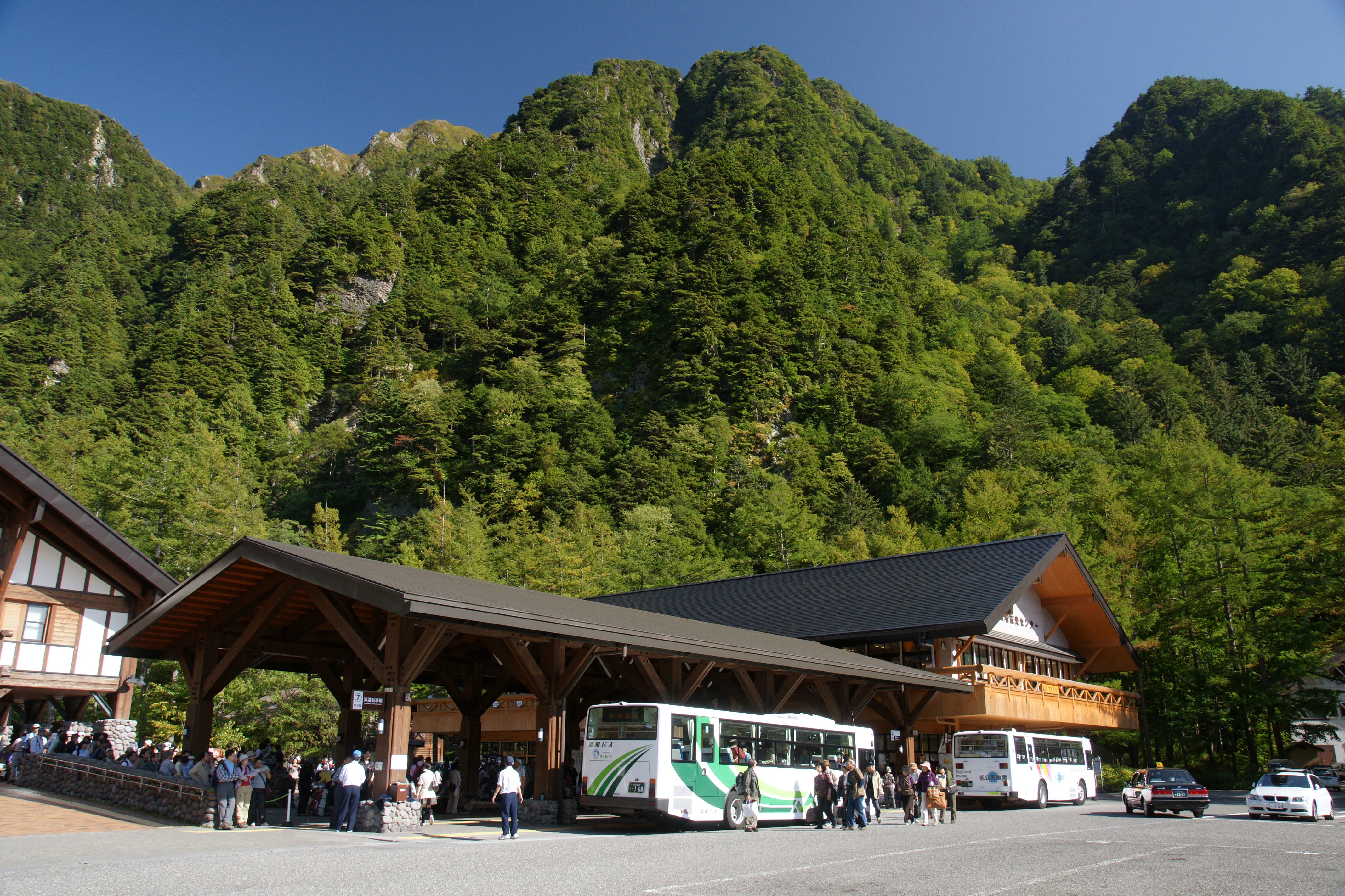 Kamikochi in Matsumoto, Nagano prefecture, Japan